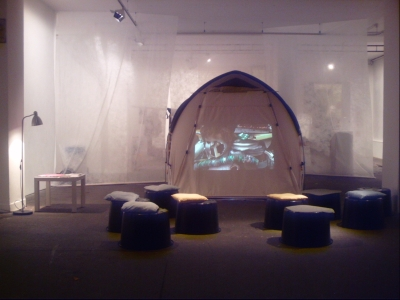 life video überspielung